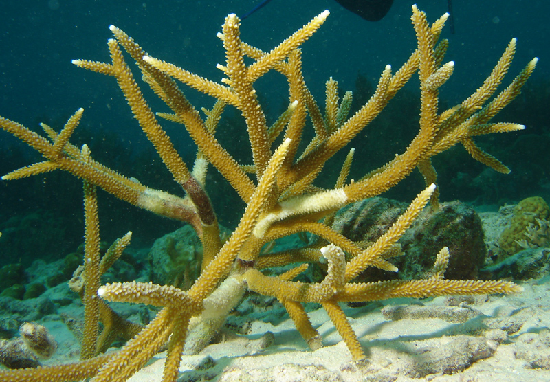 Staghorn coral (Acropora cervicornis)